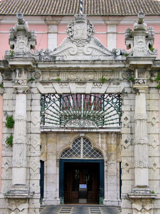 the wonderful entrance gate of the Library